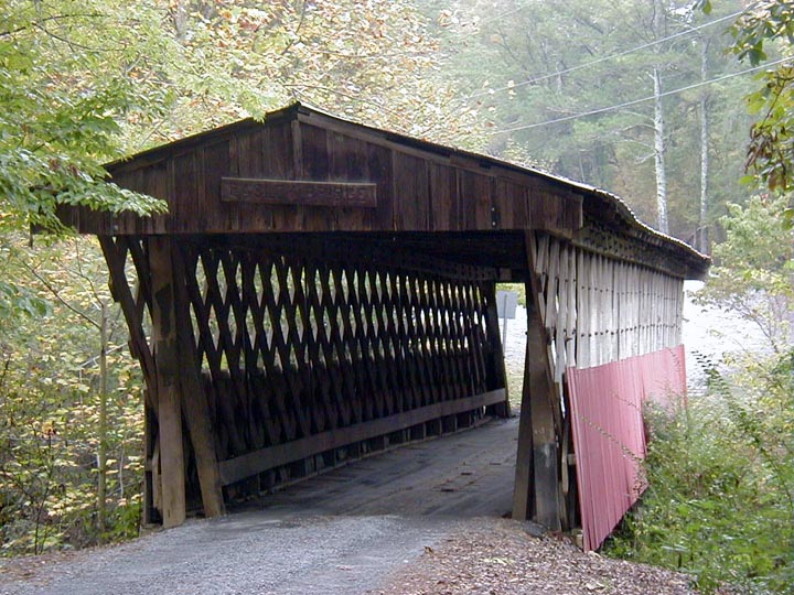 A photo of the Easley Covered Bridge in Blount County, Alabama. Image was taken by M.L. Devall in October 2004.